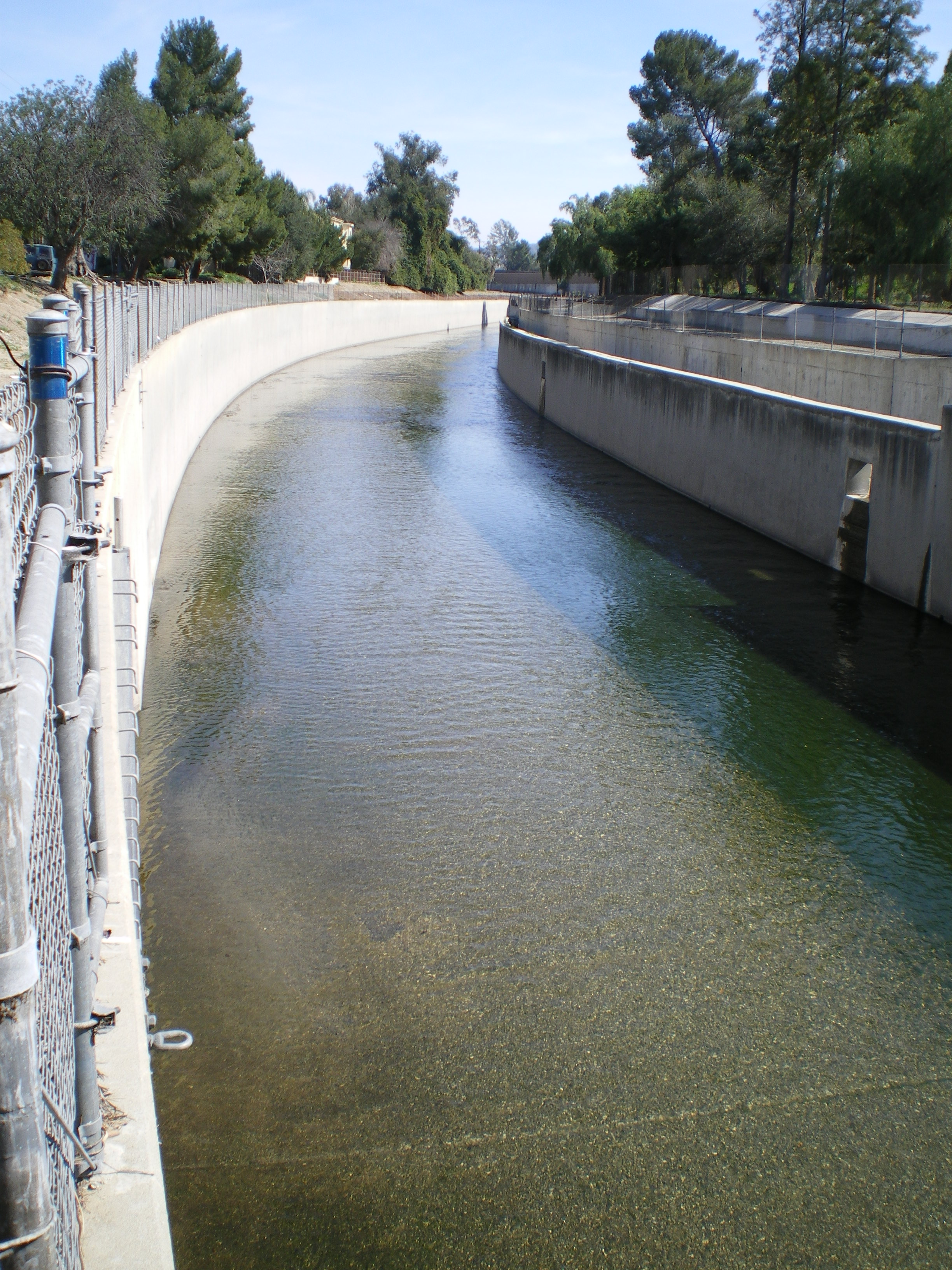 Los Angeles River — at Van Nuys Boulevard and Riverside Drive, in Sherman Oaks, California